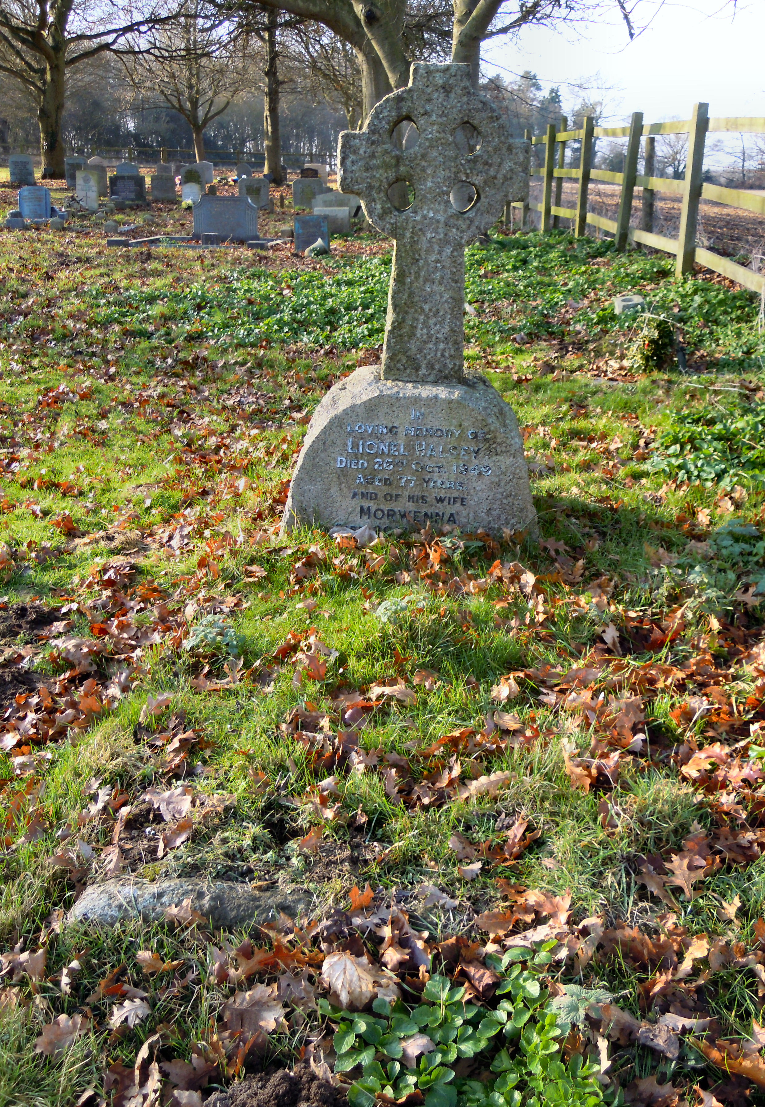 The grave of Lionel Halsey in the churchyard of St Leonard's in Old Warden in Bedfordshire